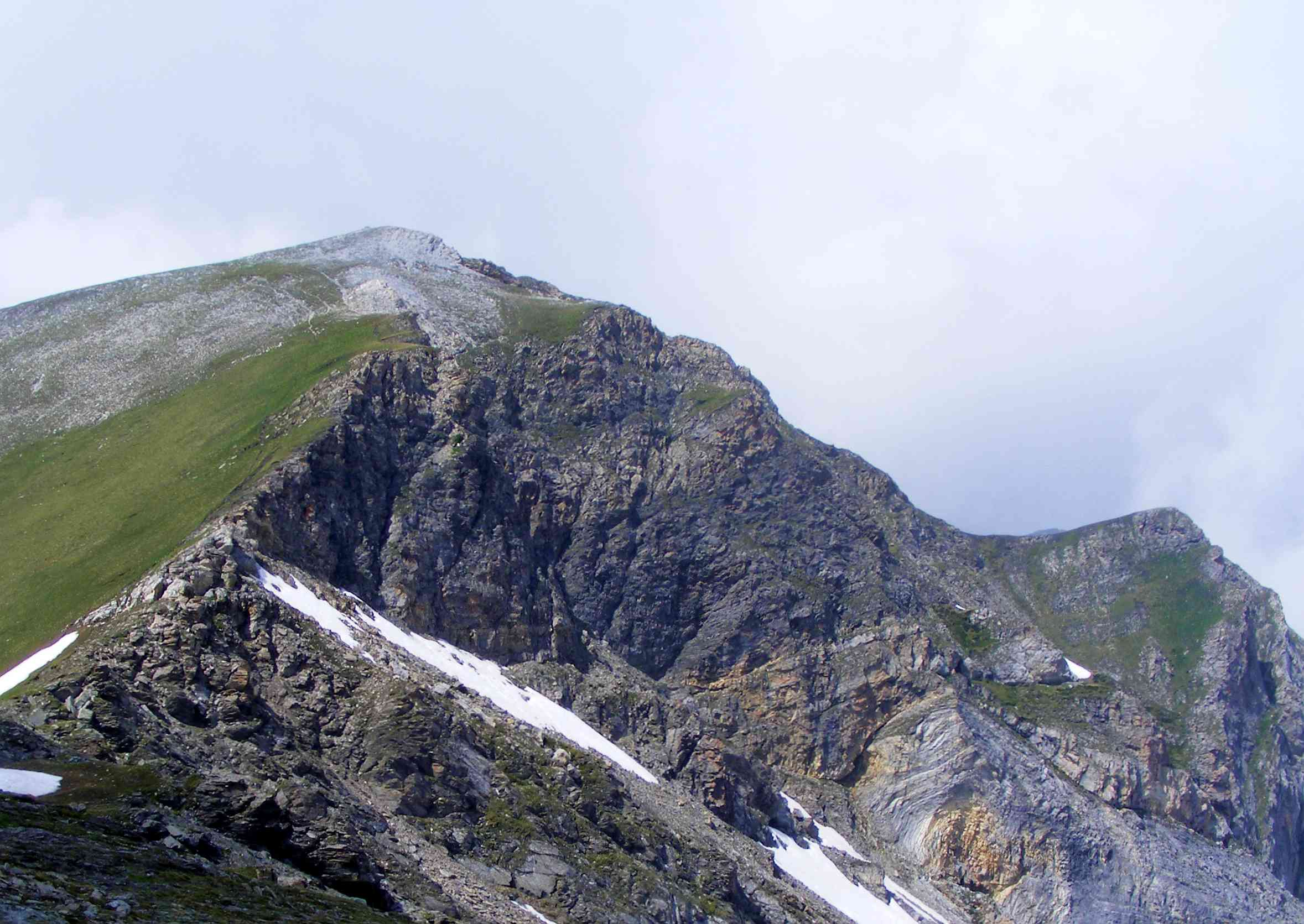 Mount Sea Bianca (CN/TO, Italy, Cottian Alps) as seen from Punta dell'Arpetto